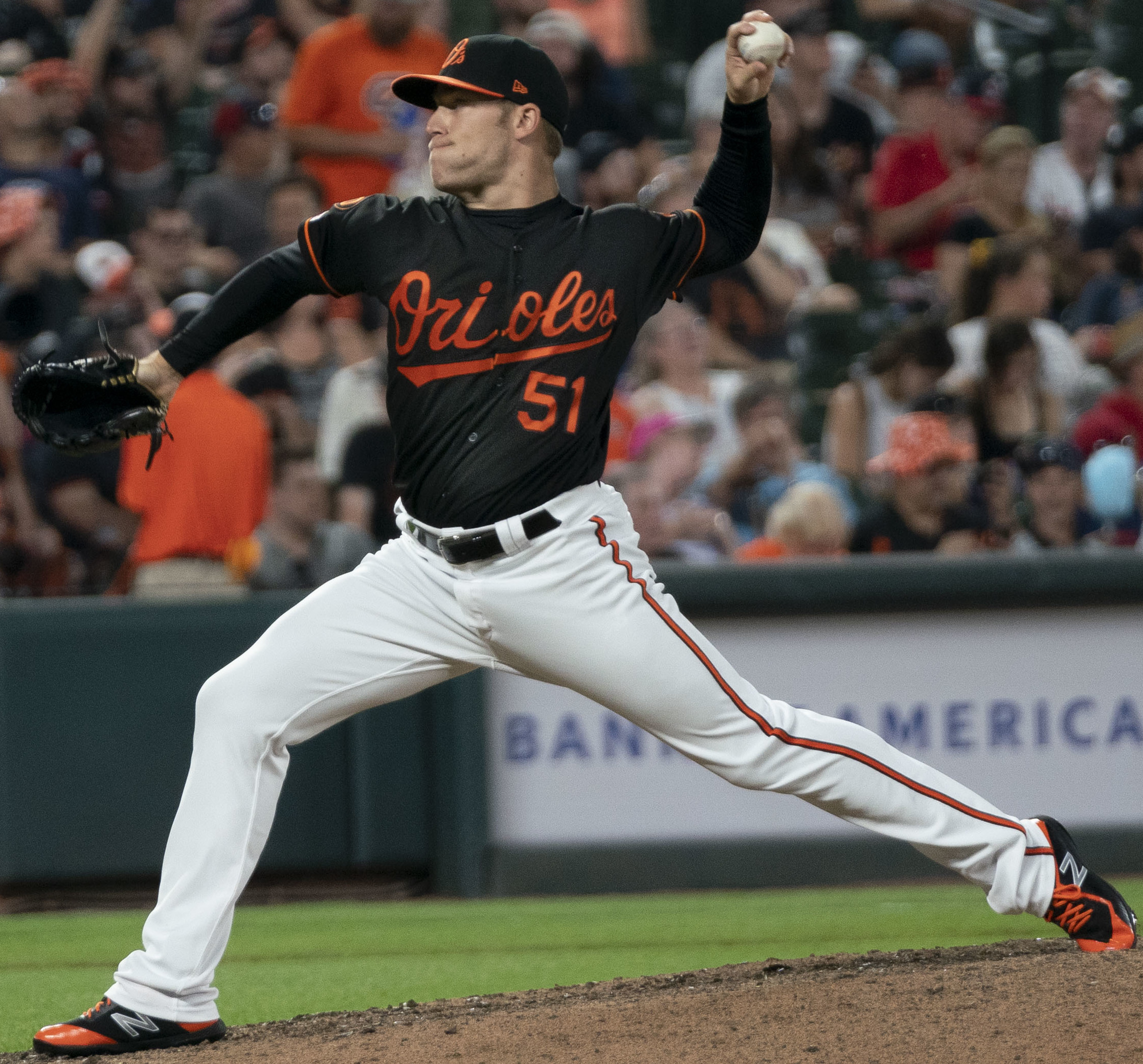 Indians at Orioles 6/28/19